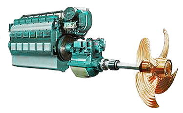 4-Stroke marine diesel engine and propulsion system with 4-blade propeller.